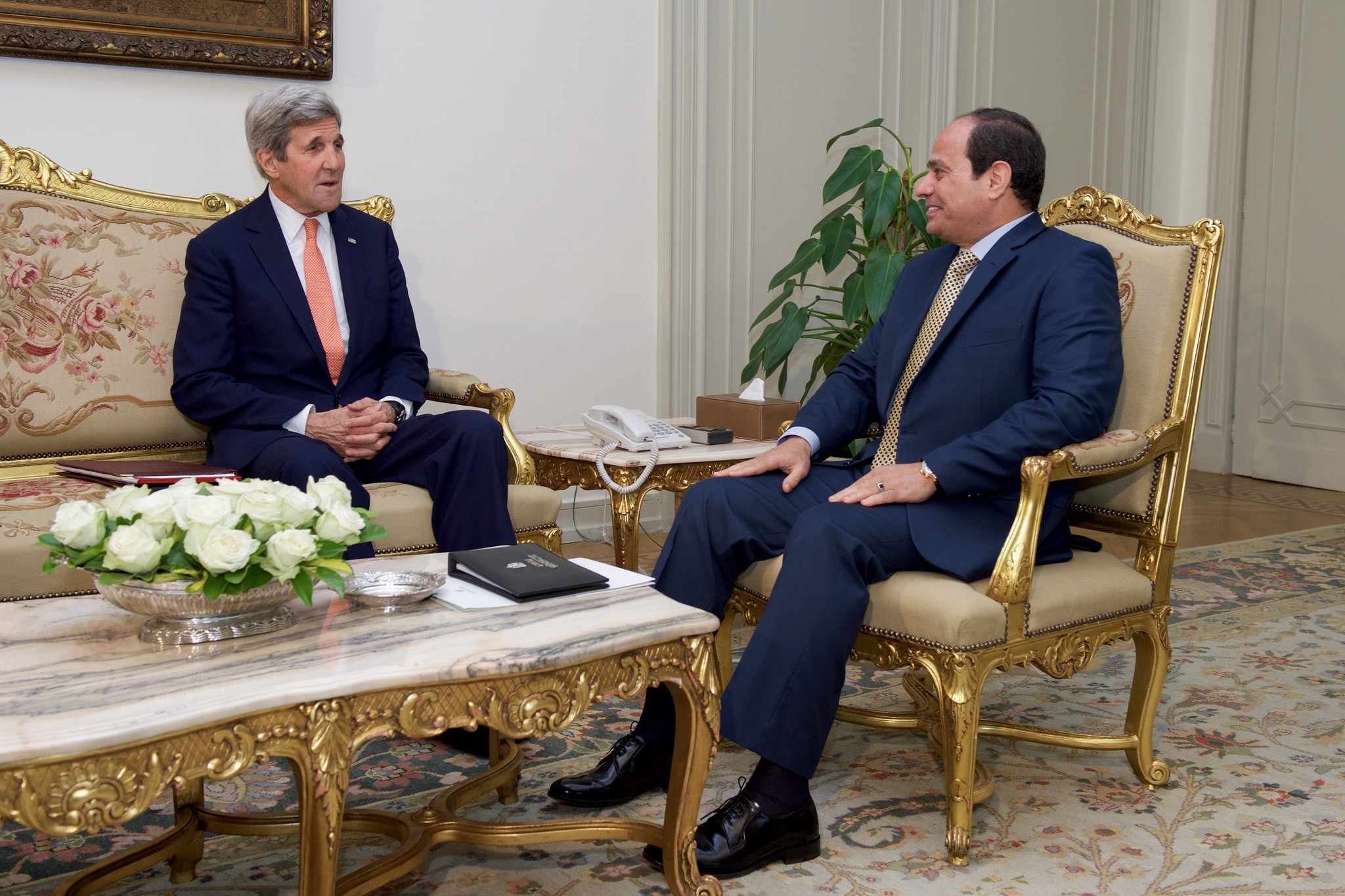 U.S. Secretary of State John Kerry sits with Egyptian President Abdel Fattah al-Sisi at the Presidential Palace in Cairo, Egypt, on April 20, 2016, at the outset of a bilateral meeting preceding an onward flight by the Secretary to Riyadh, Saudi Arabia, to accompany President Obama during a meeting of the Gulf Cooperation Council. [State Department photo/ Public Domain]